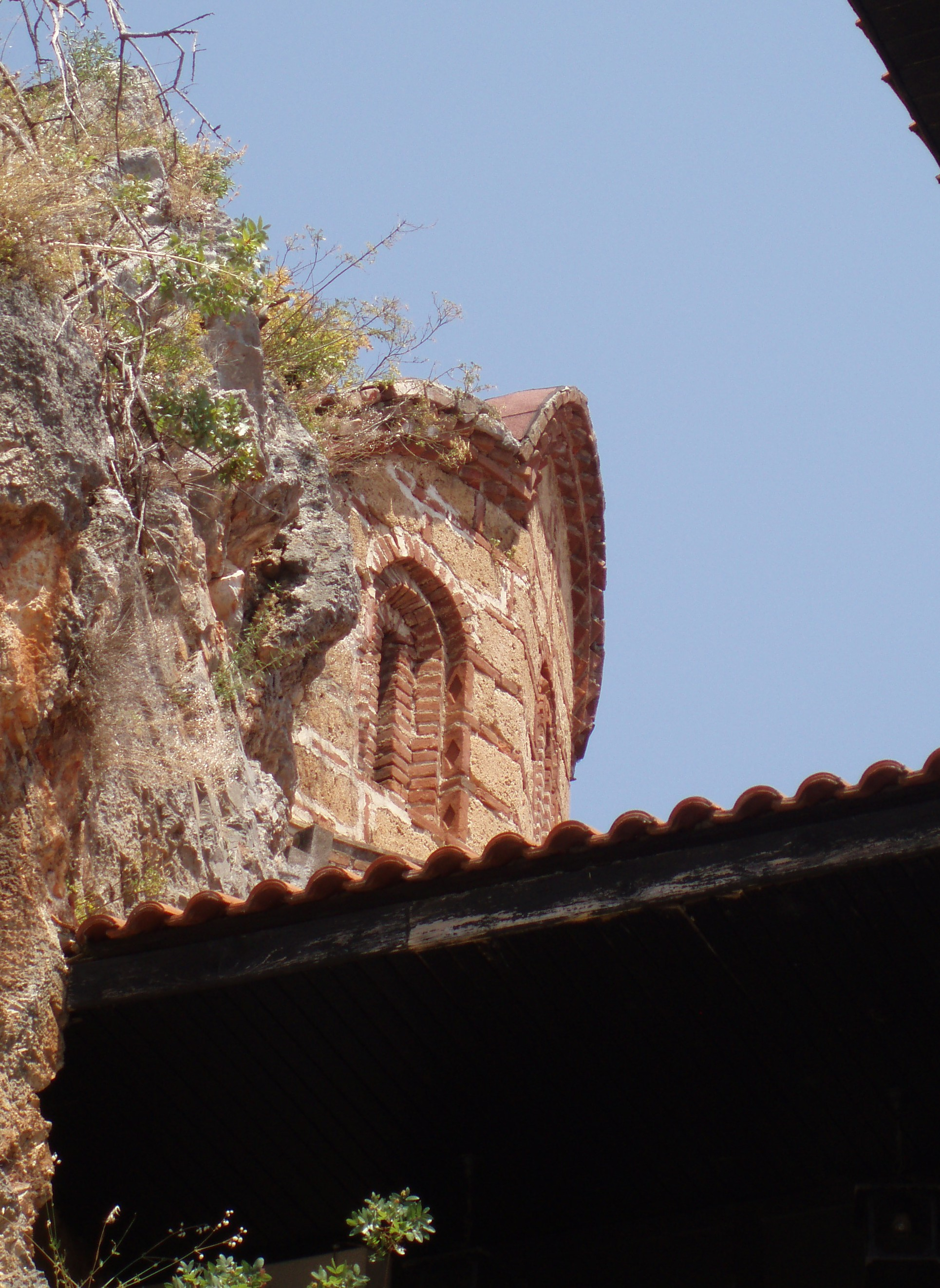 The rock church in the monastery of Kalishta in Republic of Macedonia.